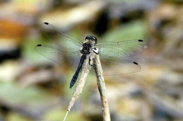 Picture taken in Commanster, Belgian High Ardennes . Species: Sympetrum danae